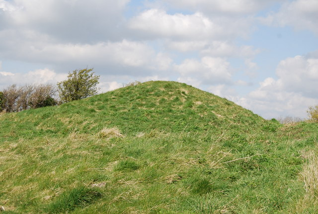 Westernmost of the Five Marys Bronze age tumuli on chalk ridge.